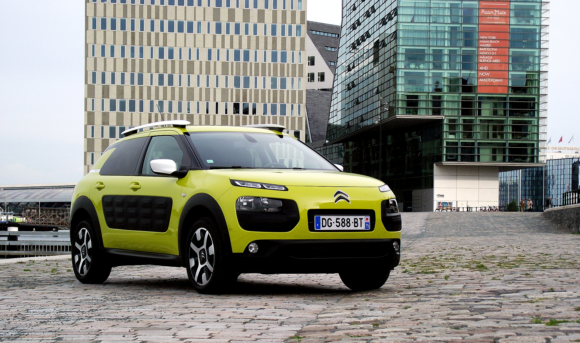 2014 Citroën C4 Cactus Feel Edition PureTech e-THP 110 front view Hello Yellow Amsterdam